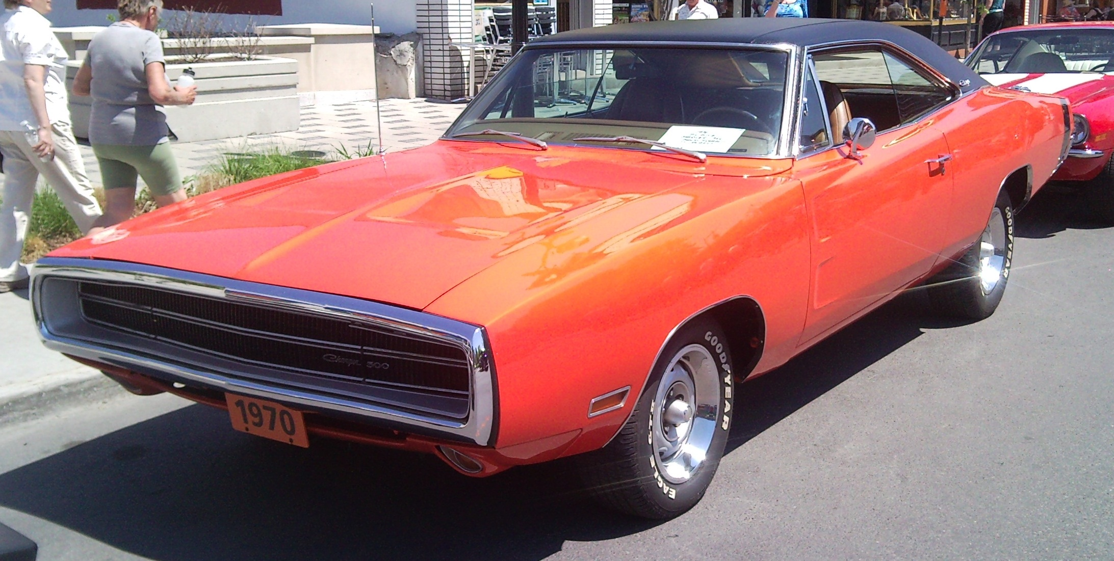 1970 Dodge Charger photographed in St. Lambert, Quebec, Canada at Auto classique VAQ St-Lambert 2012.